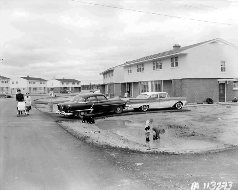 Canadian Forces Base, showing water backed up in ditches, Cold Lake, Alta. Permanent Married Quarters (PMQs), circa 1960, Canadian Forces Base (then Royal Canadian Air Force Station) Cold Lake, Alberta, Canada.